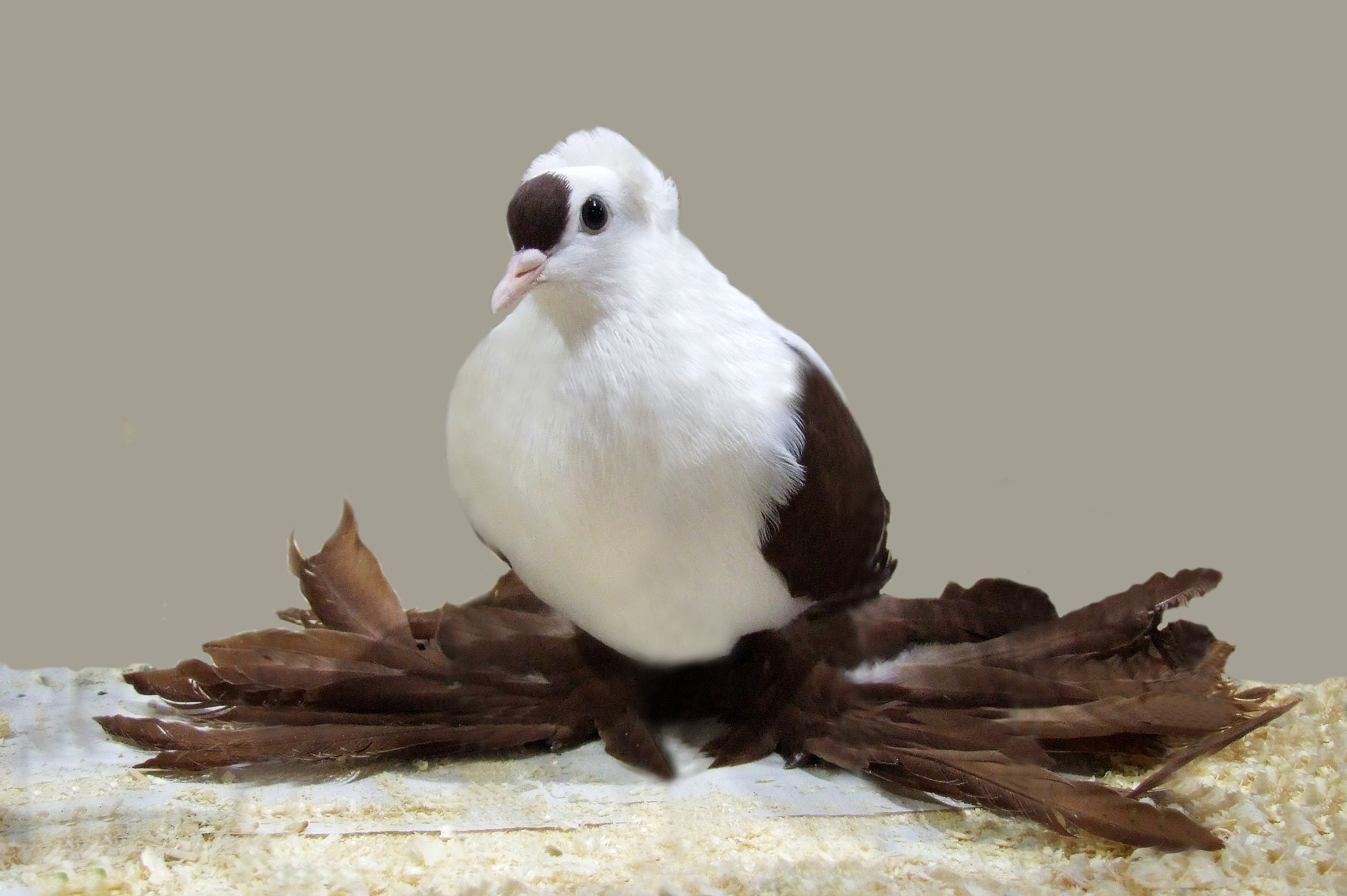 Saxon Fairy Swallow (Red) photo by jackie brooks/jim gifford